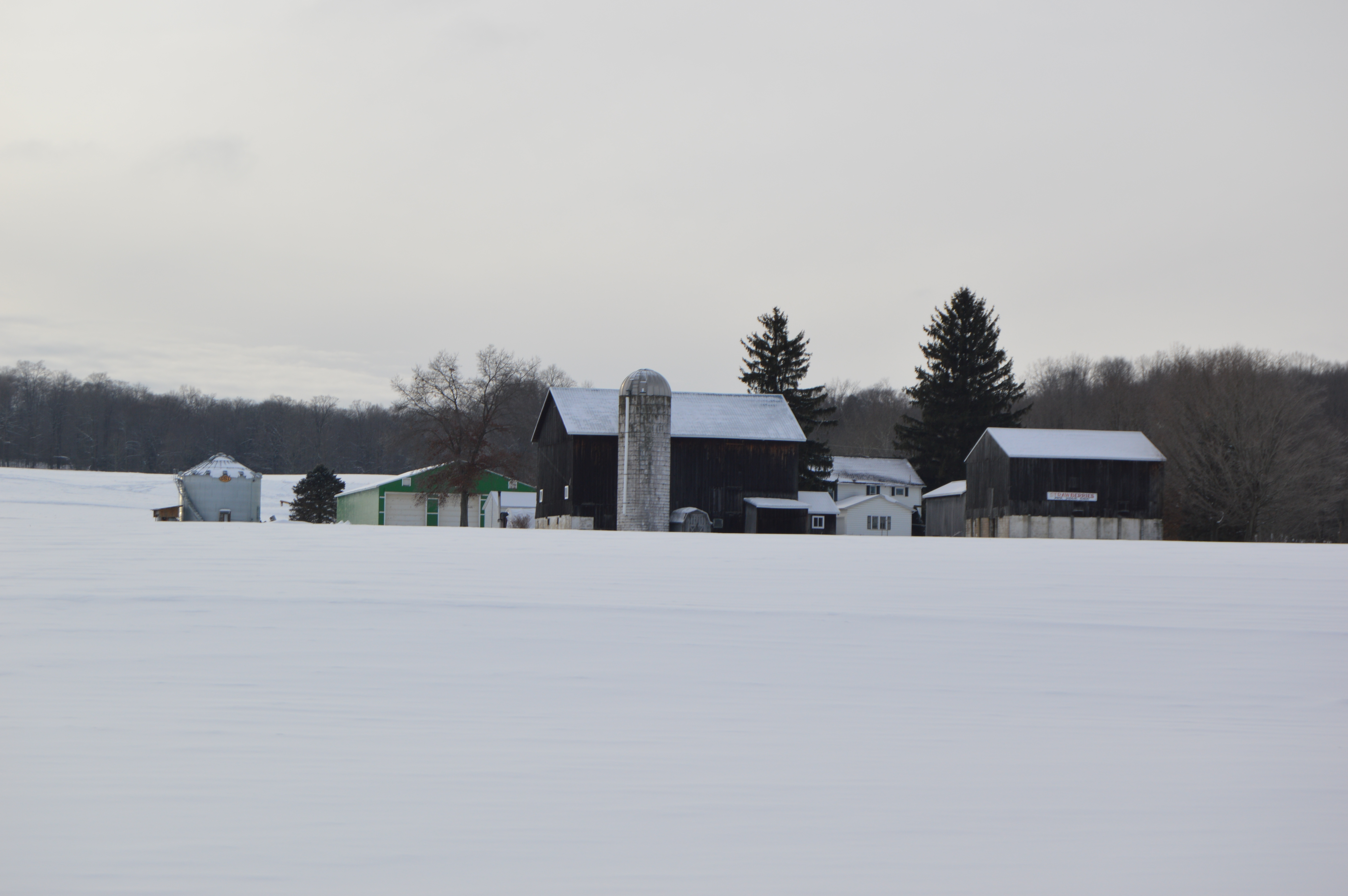 Looking west from Pennsylvania Route 97 (Erie County) toward a farm on the nearby Shunpike Road south of Erie in Summit Township, Erie County, Pennsylvania, United States.